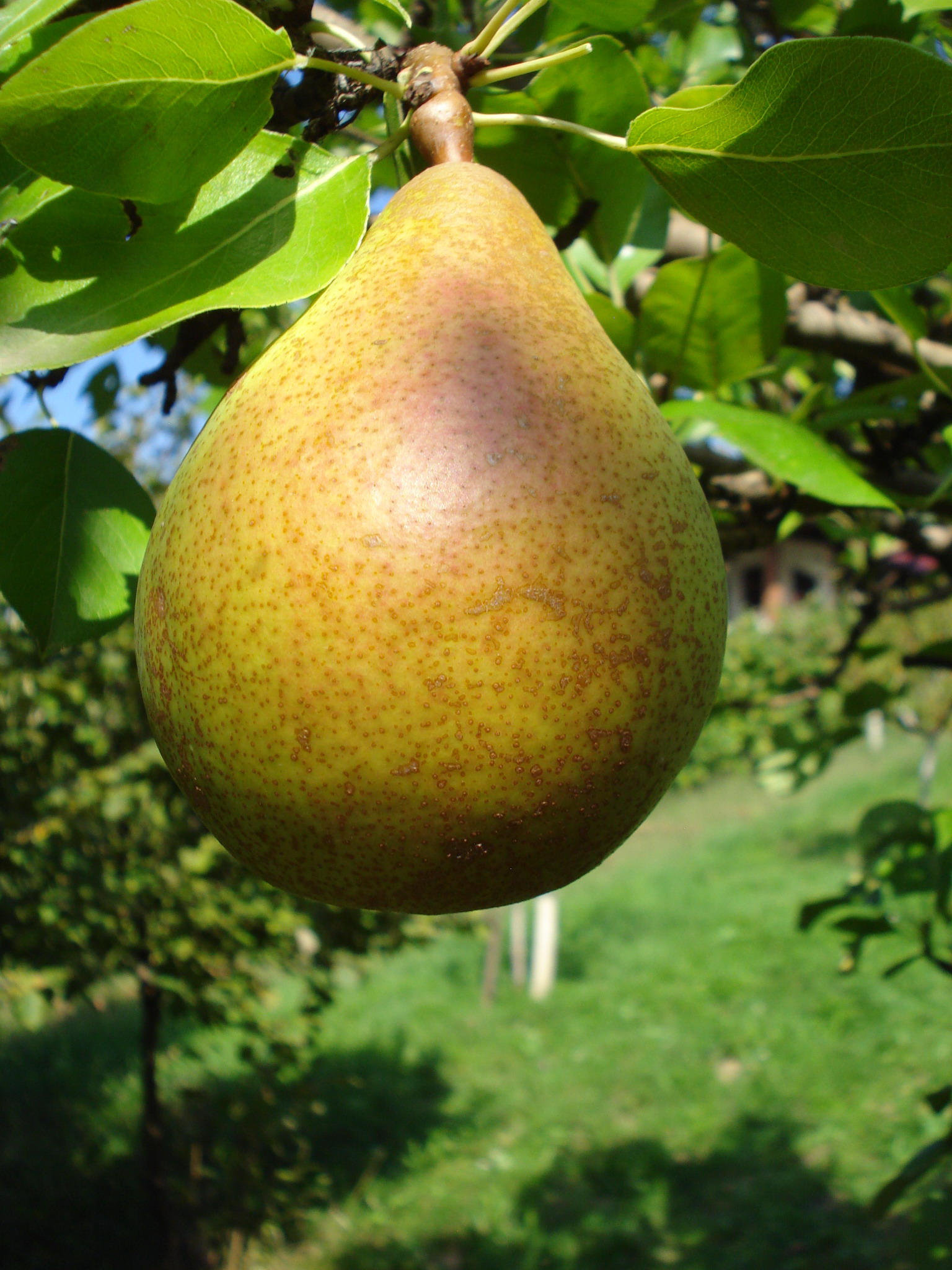 "Clairgeau" pear, late ripening variety, grown in Medjimurje County, northern Croatia